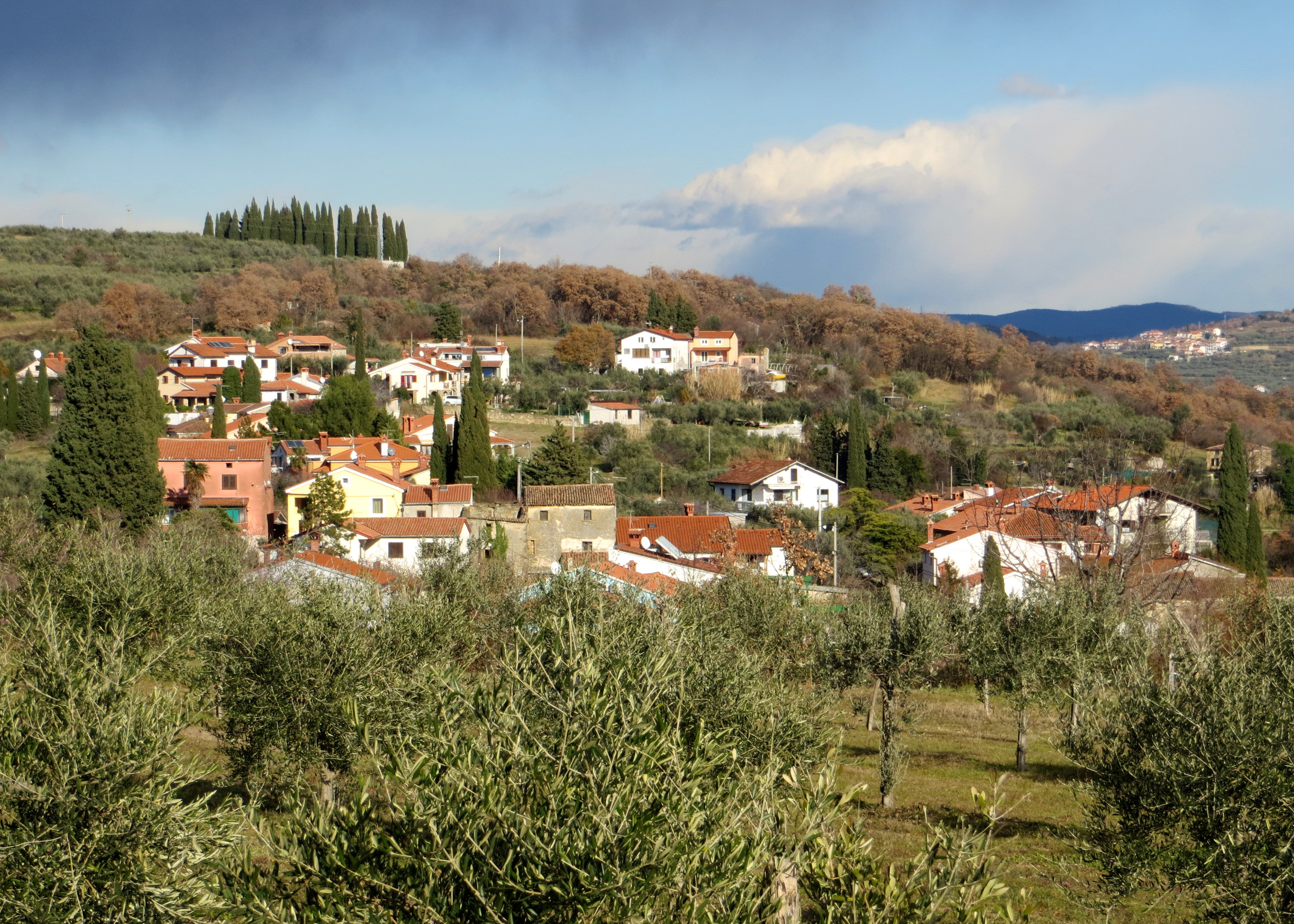 Medoši, a hamlet of Korte, Municipality of Izola, Slovenia